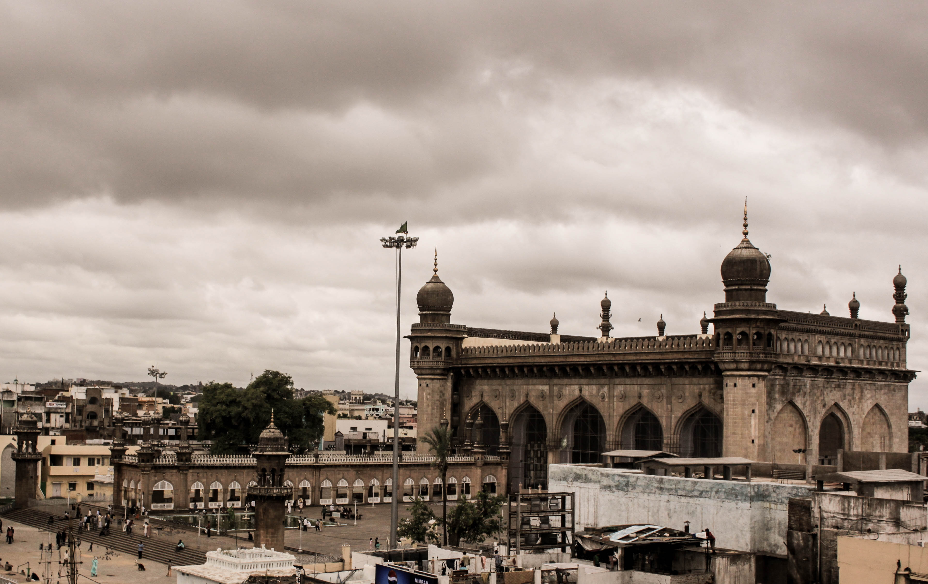 Macca Masjid